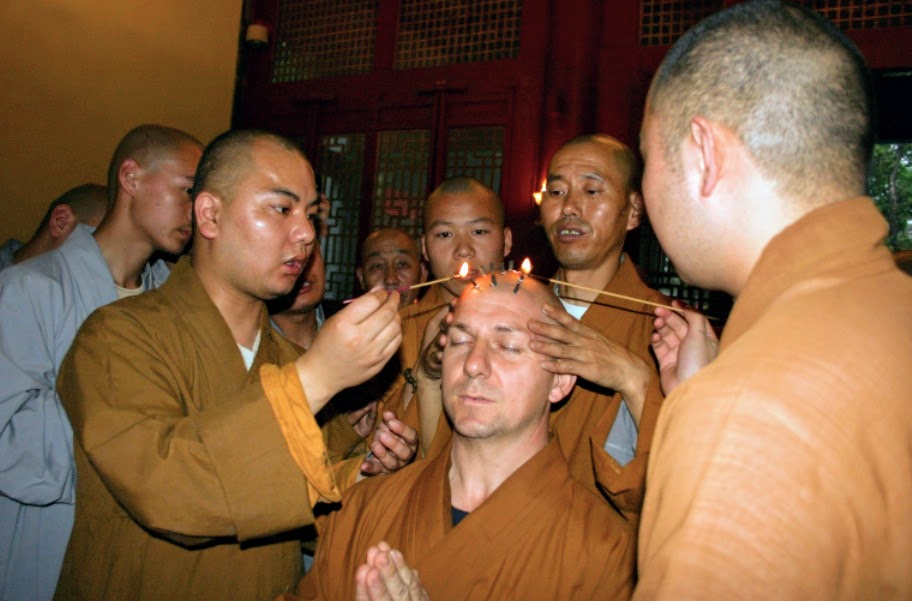 Shi Yan Fan receiving Jieba at Shaolin Temple, China 2007. Precept branding marks of Shaolin Temple.